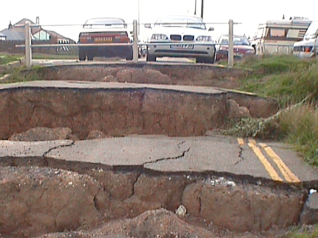 Aldbrough, East Riding of Yorkshire, England.(Mount Pleasant) No Parking!